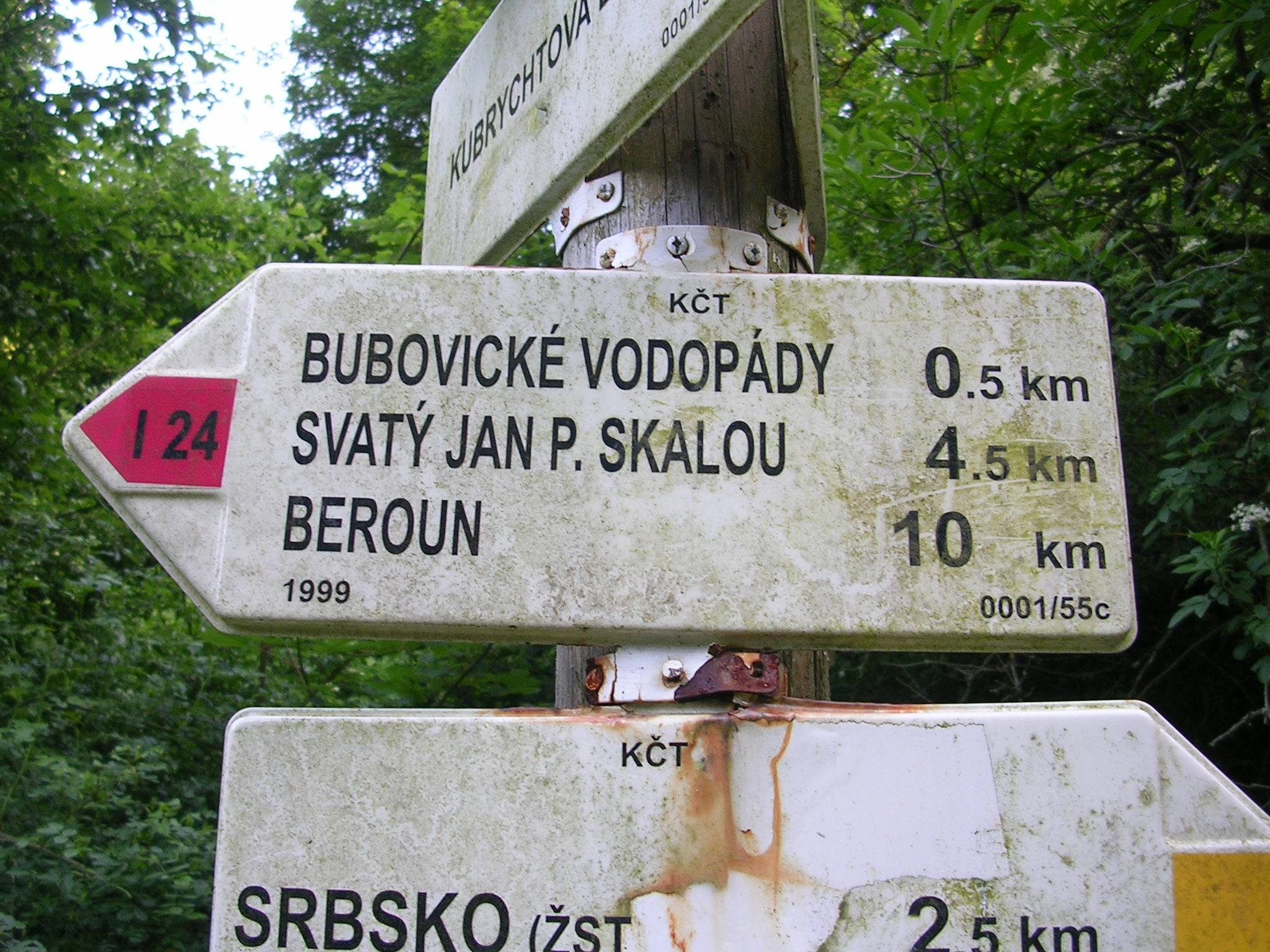 Srbsko, Beroun District, Central Bohemian Region, the Czech Republic. A hiking fingerpost near Kubrychtova bouda. A sign of international route I24 (a Czech part of Way of Saint James).